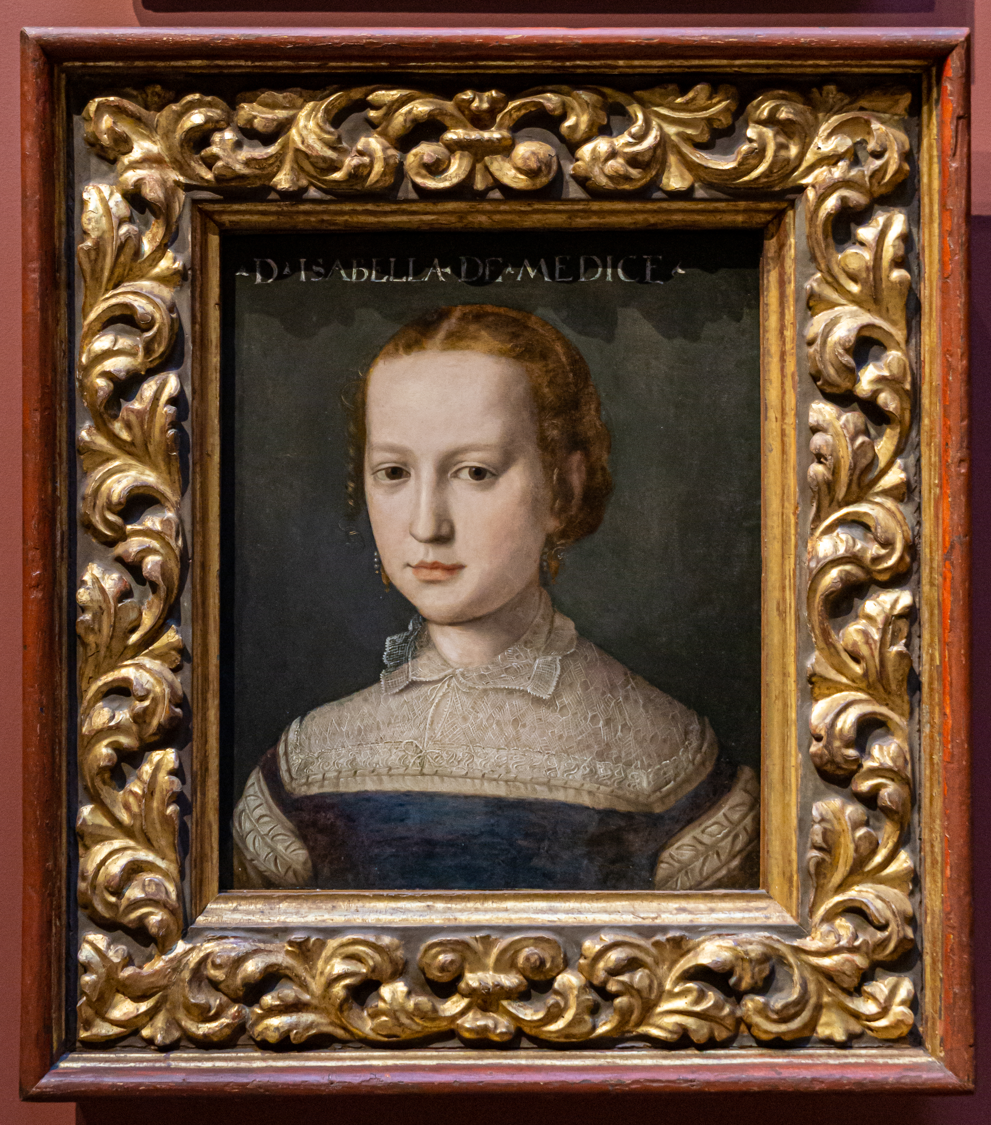 Isabella de' Medici